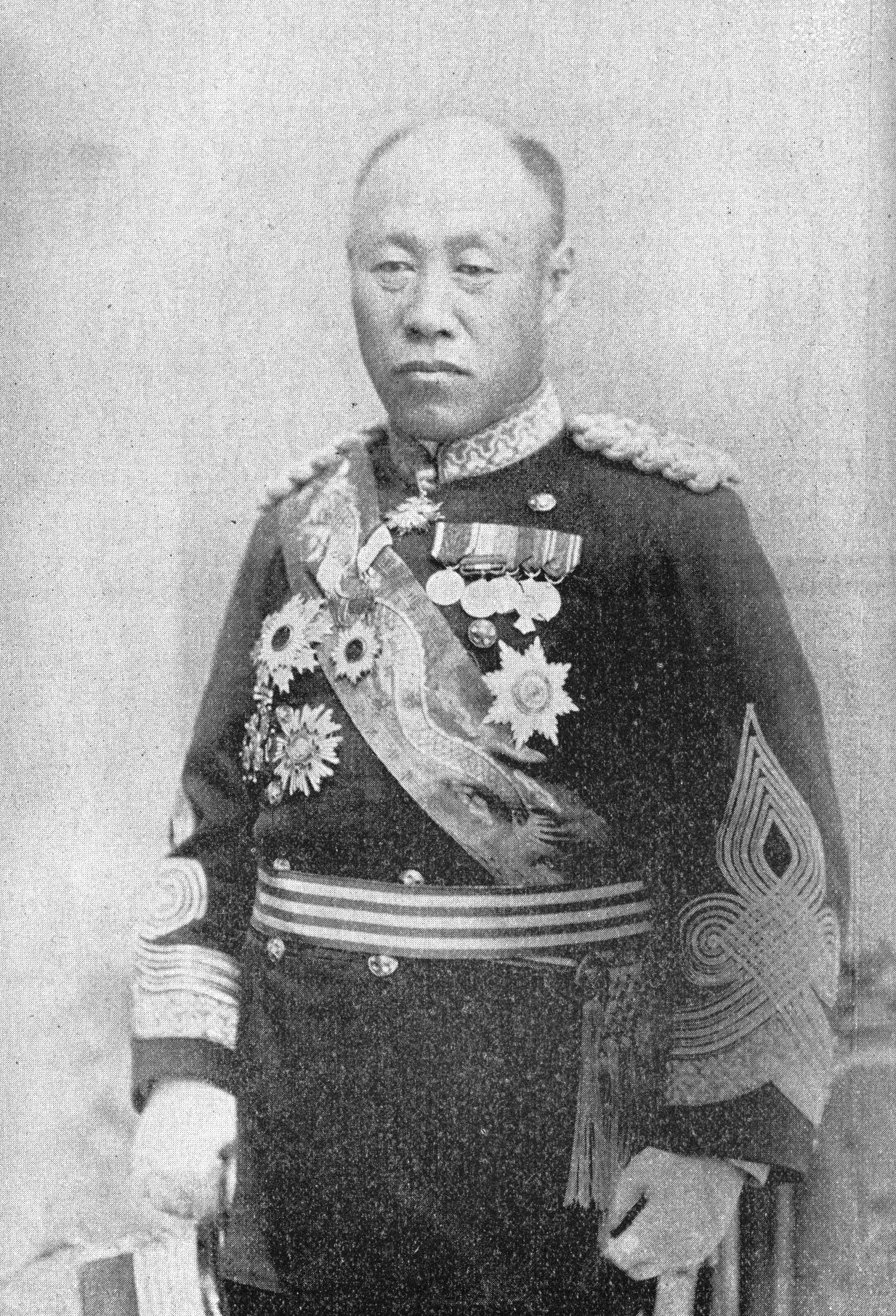 Baron Ishiguro Tadanori